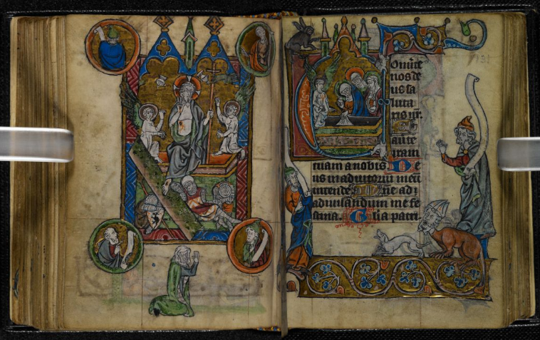 Two adjacent folios (pages) of the Maastricht Book of Hours (BL Stowe MS17), an illuminated manuscript mainly known for its lively depictions of animals and half-animals. The book of hours was probably made for an aristocratic lady in the Liège-Maastricht area in the first quarter of the 14th century. In the 18th century it was owned by the 1st Duke of Buckingham and Chandos, who in 1849 sold it to Lord Ashburham. In 1883 it was purchased by the British Library as part of the Stowe collection. Folios f18r up to f131r constitute the Little Office of Our Lady, also known as Hours of the Virgin. Each of the eight sections begins with a full-page miniature on the left (verso) and a large decorated initial on the right hand page (recto), both with scenes from the Passion of Jesus Christ. At the bottom of the recto page is always a decorated border with floral motives supporting human figures or animals fighting. Shown here are the two initial pages of the complines section: f130v shows the resurrection of Christ, and f131r the three Maria's at the empty tomb. A the bottom of f130v possibly a portrait of the owner of the prayer book, kneeling down in prayer. At the bottom and right of f131r two men with scrolls (Old Testament prophets?), a dog and a dog with a bishop's head.